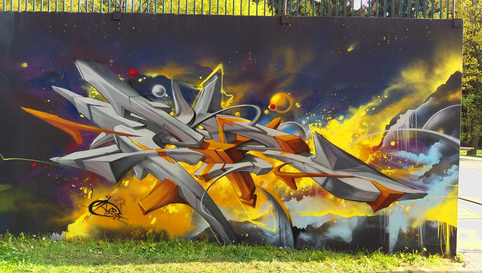 Vladimír Hirscher - In the nebula of Big Bang